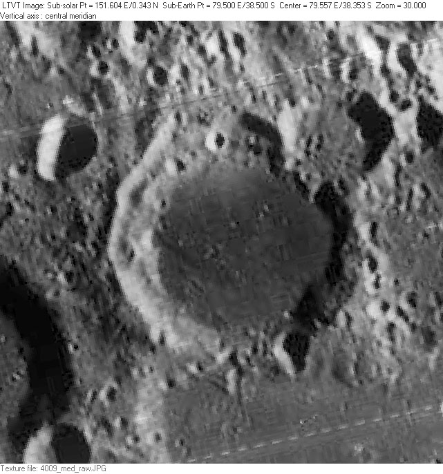 Crater Harlan. Detail from Lunar Orbiter IV-009M. High resolution scans from the USGS Lunar Orbiter Digitization Project remapped to a north-up aerial view by LTVT.